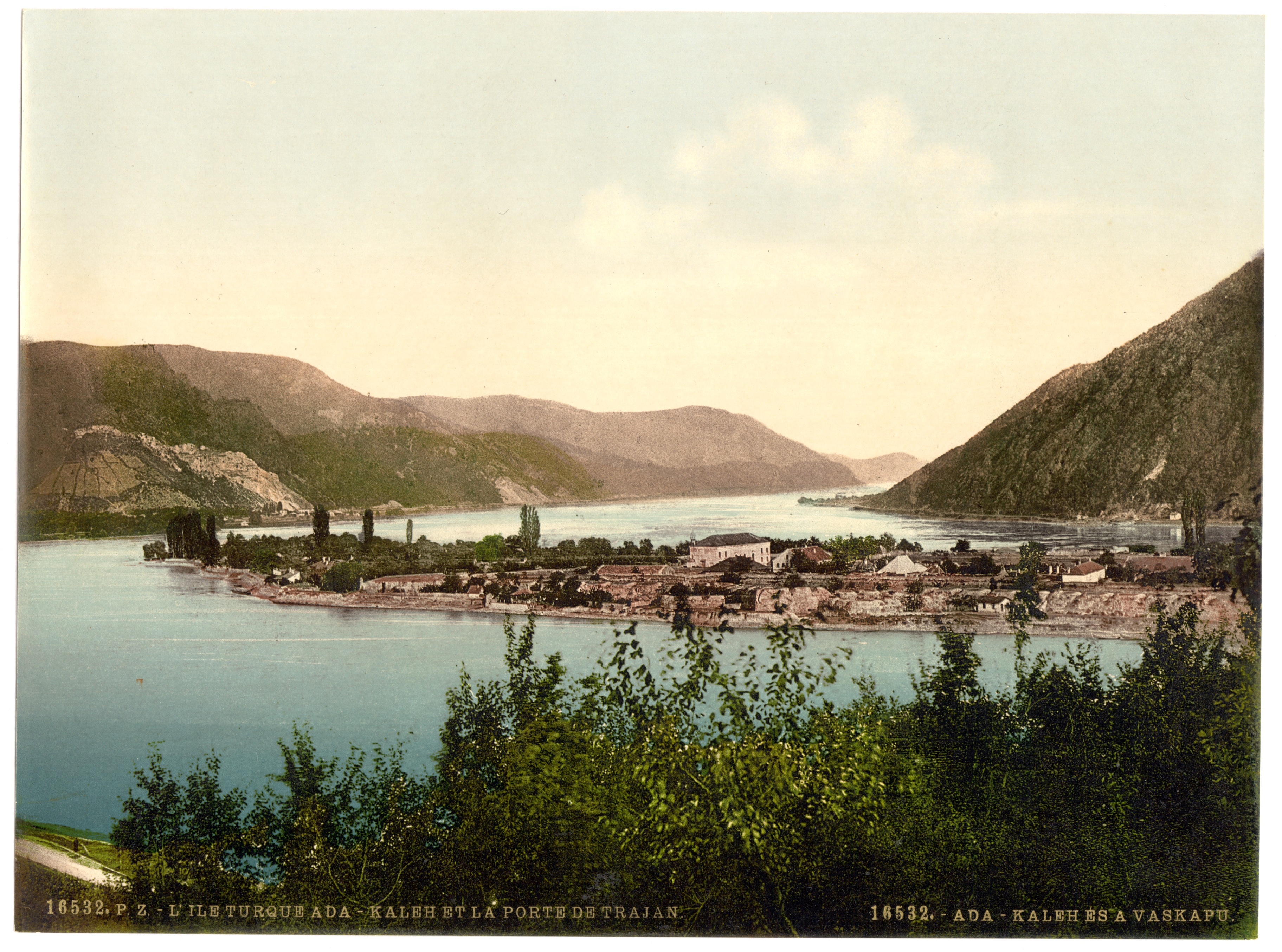 Forms part of: Views of the Austro-Hungarian Empire in the Photochrom print collection.; Title from the Detroit Publishing Co., Catalogue J-foreign section, Detroit, Mich. : Detroit Publishing Company, 1905.; Print no. "16532".; Caption on print: L'Ile Turque Ada Kaleh et la porte de Trajan.